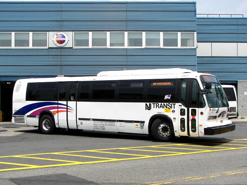 Millennium RTS Legend #4101 for NJ Transit during a Maintenance Burn-In. Trevor Logan Photo.